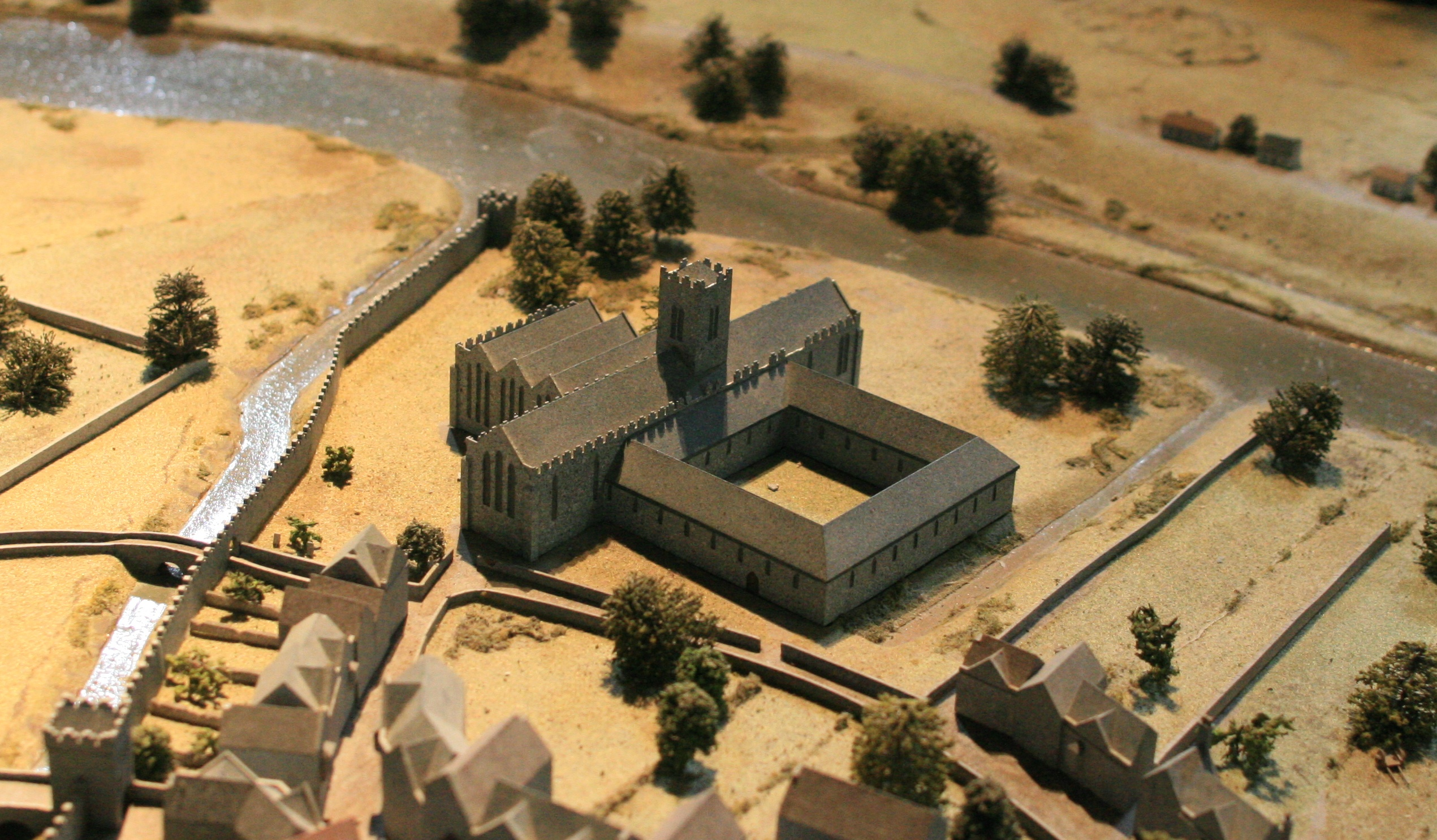 Kilkenny, County Kilkenny, Ireland Franciscan Friary in Kilkenny as seen from southwest in a model of medieval Kilkenny in the north aisle of St. Canice's Cathedral in Kilkenny.